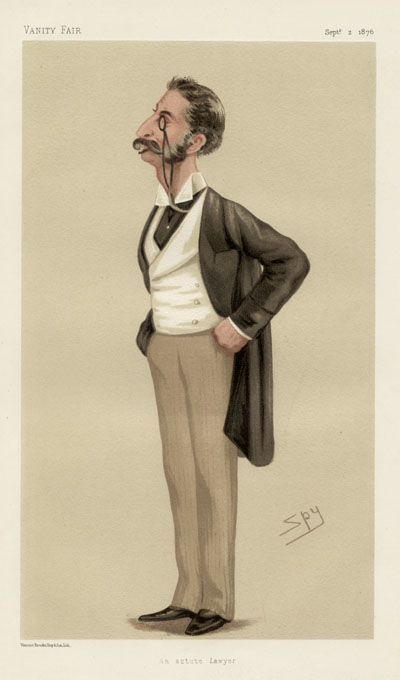 Men of the Day No.135: Caricature of Mr GH Lewis. Caption reads: "An astute lawyer"